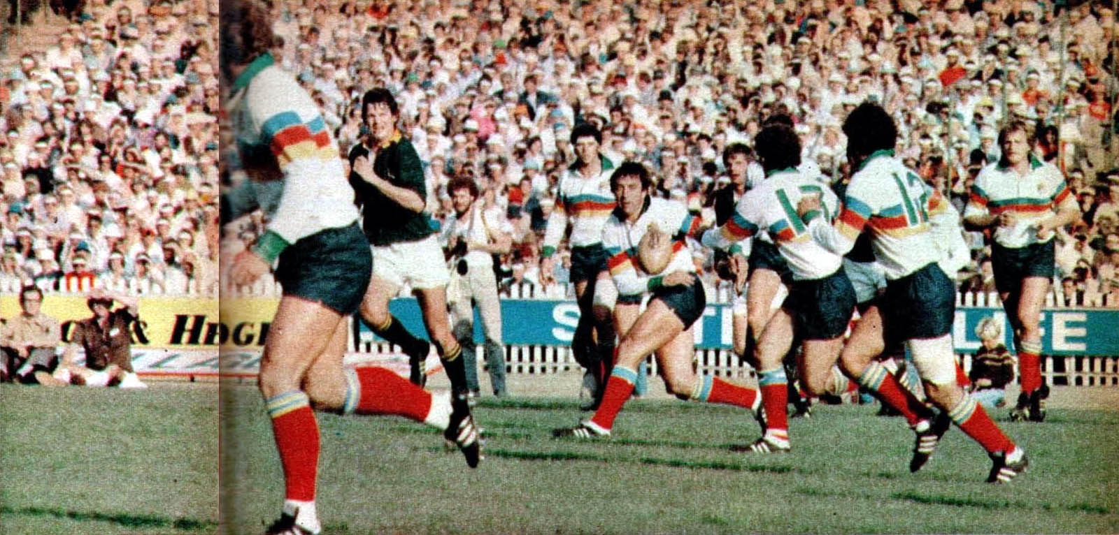 Rugby match: South American Jaguars vs South Africa